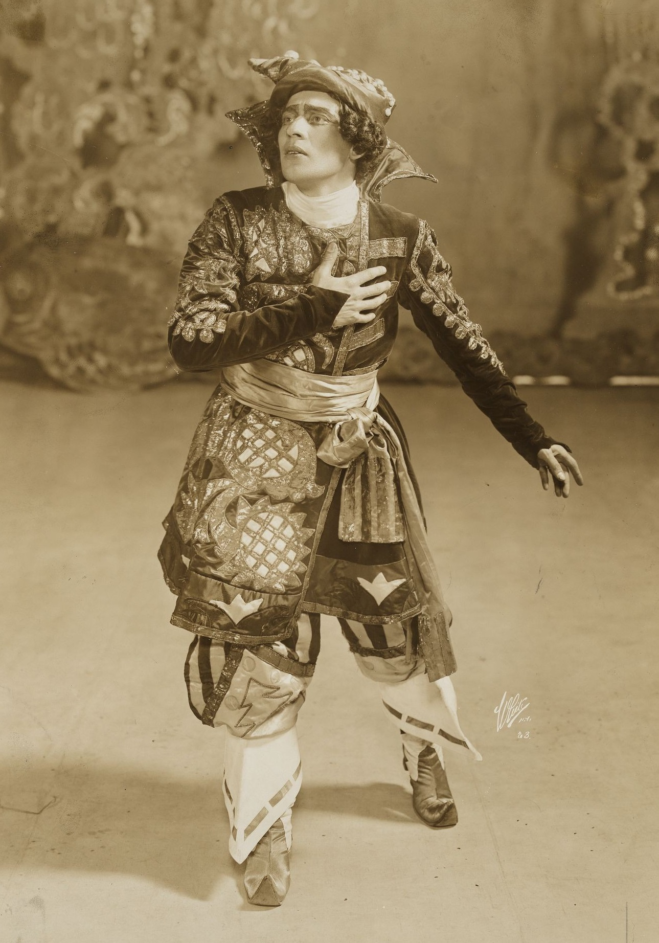 Photograph of actor Adolph Bolm (1884-1951) in character as Sadko, 1916. "White" listed as photography studio. MS Thr 495 (152), Harvard Theatre Collection, Houghton Library, Harvard University